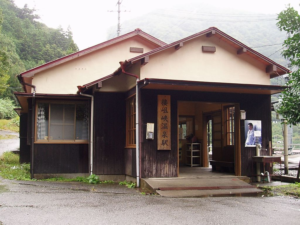 Sessokyo Onsen Sta.